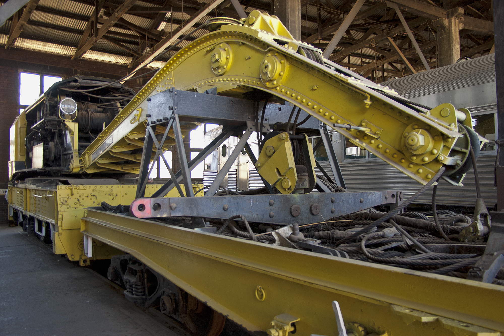 Industrial Brownhoist X1080 (U.S. serial no.: 7504; built 9/1944) 50 ton Wreaking Crane (ex U.S. Army Transportation Corps) at the Junee Roundhouse Museum.